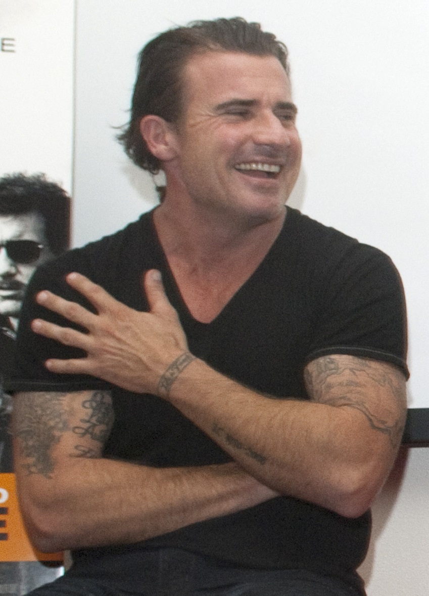 Australian actor Dominic Purcell, at Edwards Air Force Base.